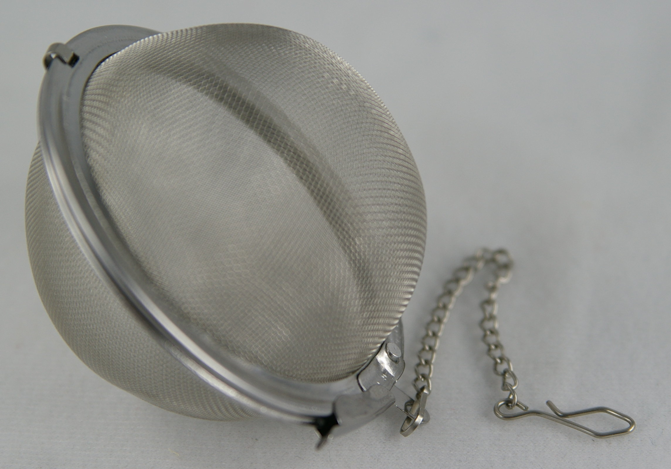 A tea ball. The tea leaves go in the ball, and then it is put into the tea pot to brew.